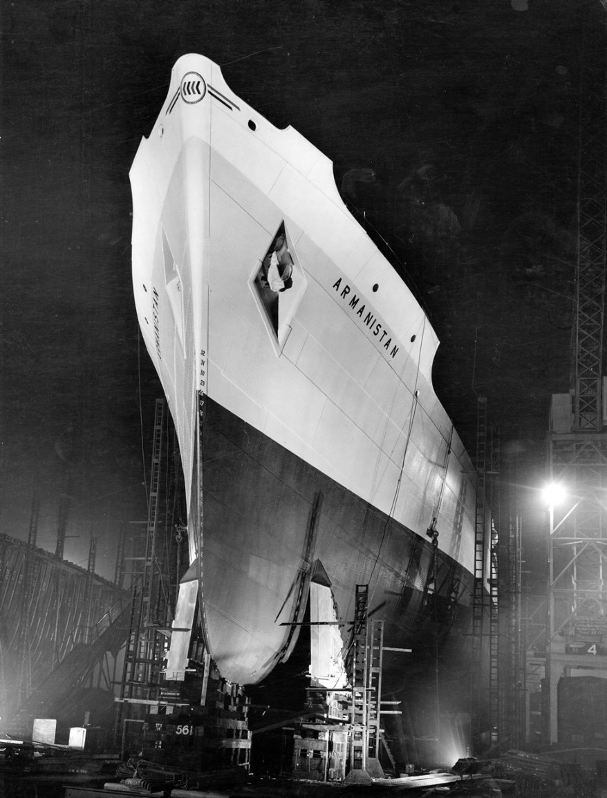 Night-time view of the cargo ship ‘Armanistan’ on the berth at the shipyard of John Readhead & Sons Ltd, South Shields, November 1948 (TWAM ref. 1061/1079). She was launched on 30 November 1948. This set celebrates the achievements of the shipyard of John Readhead & Sons. The firm has played a significant role in the North East’s illustrious shipbuilding history and the development of South Shields. The company began in 1865 when John Readhead, a shipyard manager, entered into business with J Softley at a small yard on the Lawe at South Shields. Following the dissolution of the partnership in 1872, it continued as John Readhead & Co on the same site until 1880 when the High West Yard was purchased. After Readhead’s four sons were taken into the business in 1888 the company traded as John Readhead & Sons becoming a limited company in 1908. In 1968 the company was absorbed by the Swan Hunter Group and in 1977 became part of the nationalised British Shipbuilders. In the same year the last vessel was launched and the site was sold off in 1984. Readheads was prolific and built over 600 ships from 1865 to 1968, including 87 vessels for the Hain Steamship Company Ltd and over forty for the Strick Line Ltd. The shipyard also built four ships for the Prince Line, founded by Sir James Knott. The firm built vessels, which were involved in the major conflicts of the Twentieth Century. During the First World War they built patrol vessels and ‘x’ lighters (motor landing craft used in the Gallipoli campaign) for the Admiralty. During the Second World War the firm built tankers for the Normandy Landings. (Copyright) We're happy for you to share this digital image within the spirit of The Commons. Please cite 'Tyne & Wear Archives & Museums' when reusing. Certain restrictions on high quality reproductions and commercial use of the original physical version apply though; if you're unsure please .